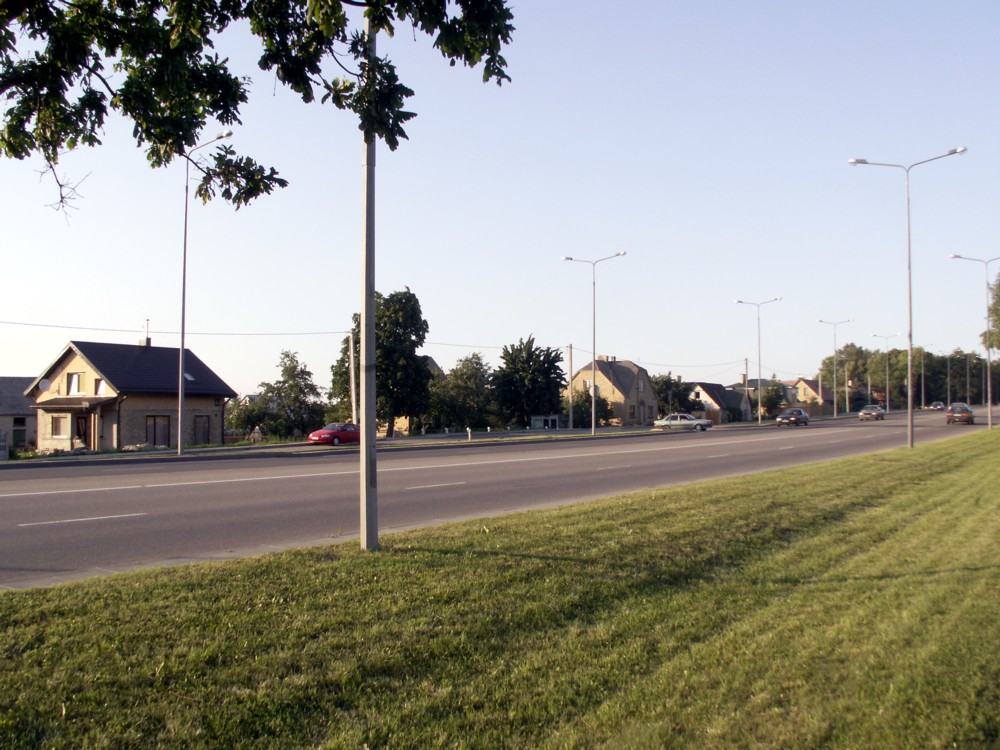 Lieporiai in Šiauliai, Lithuania